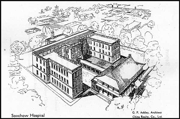 Sketch by G.F. Ashley, Architect